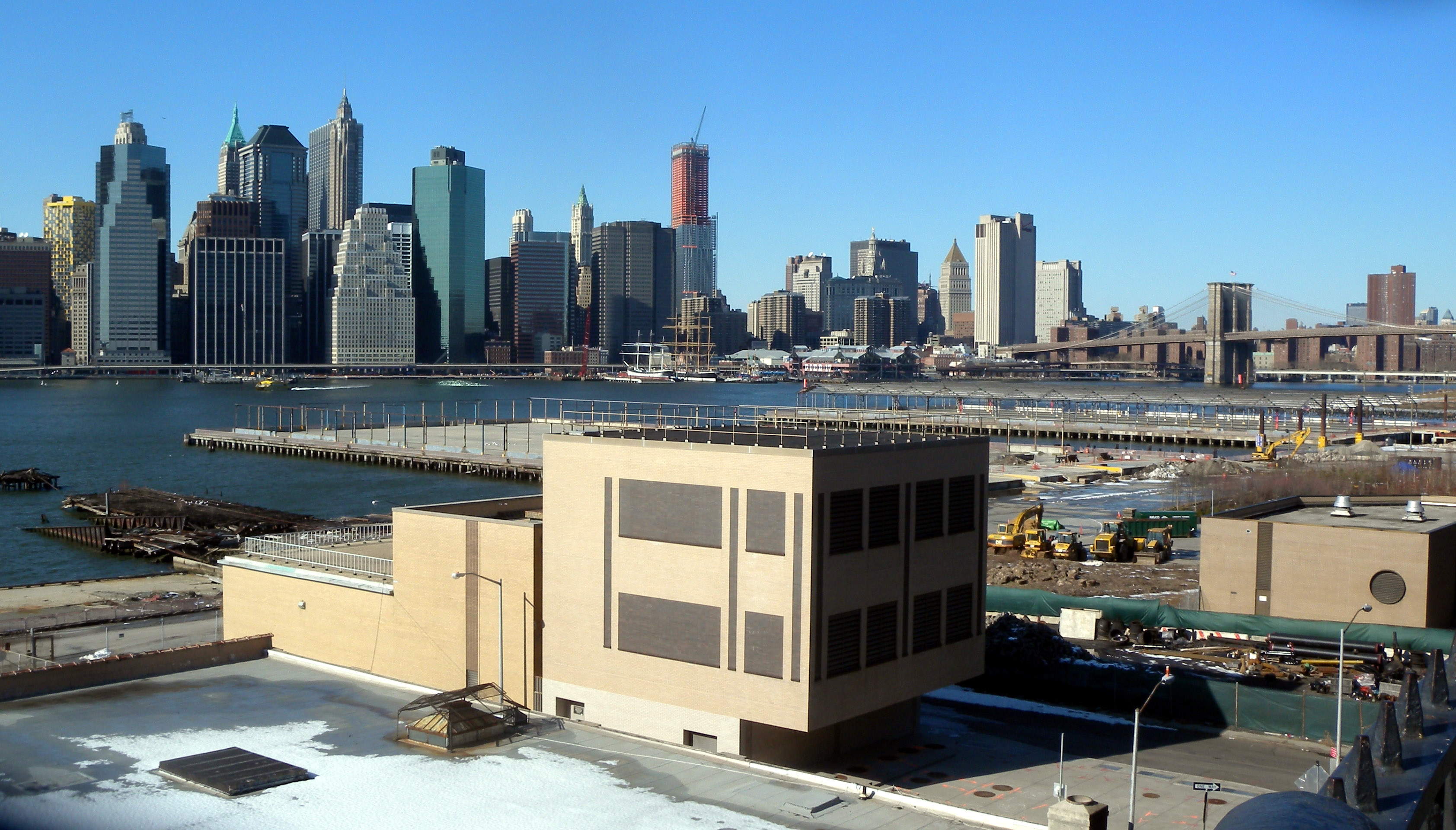 Looking north from Promenade at Montague Street vent building on a sunny afternoon.